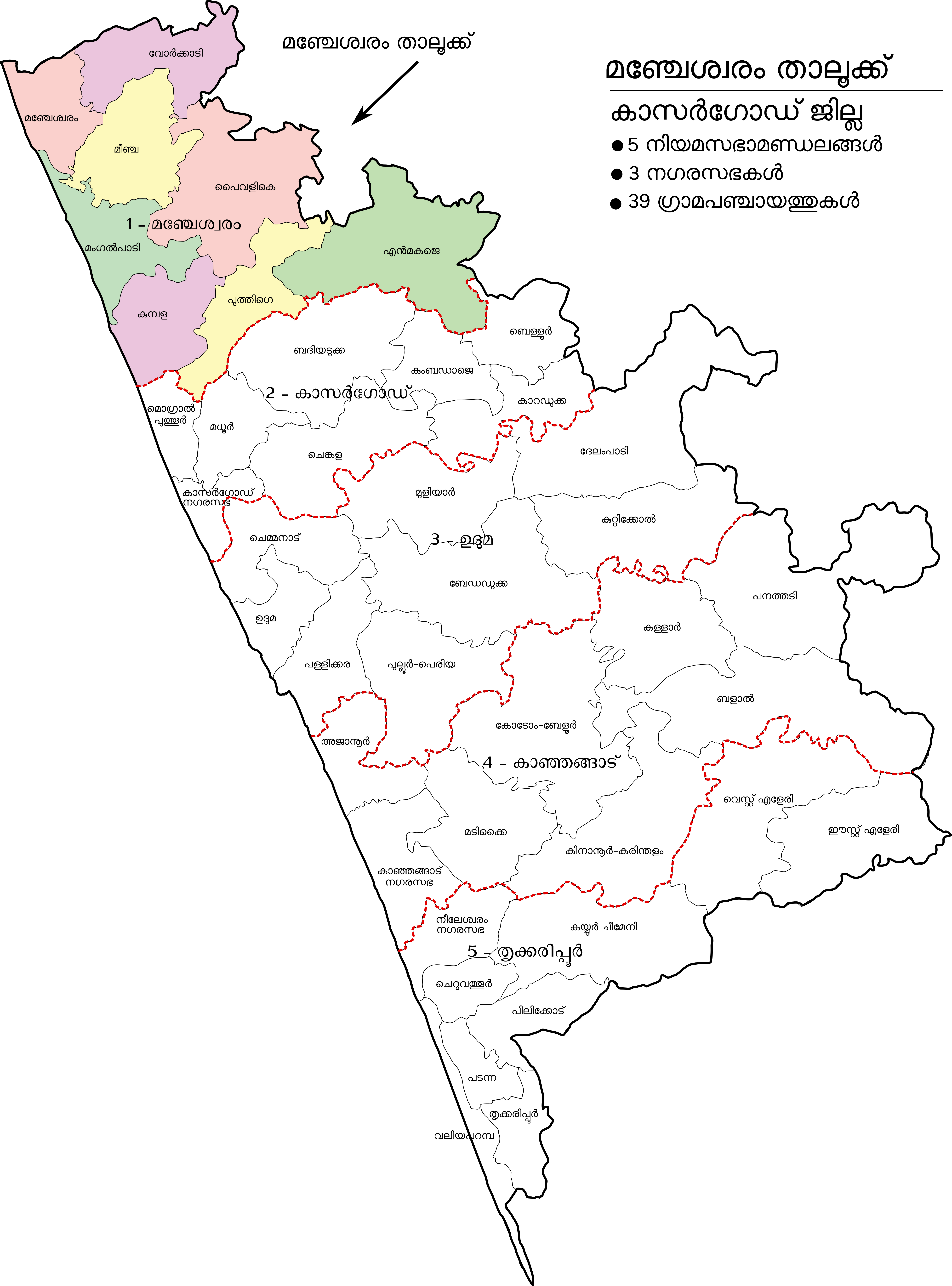 Blocks and Grama-panchayats of Manjeswara Taluk